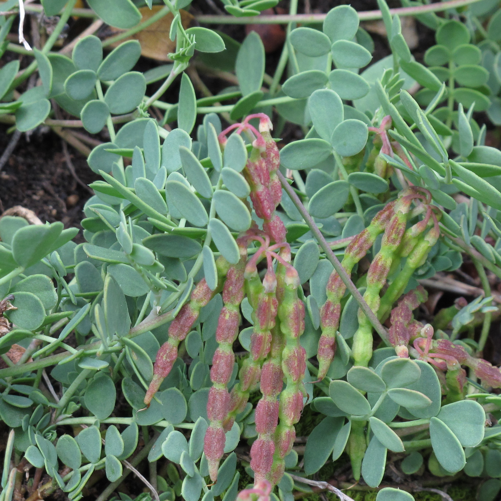 Coronilla vaginalis, Val Chamuera near Chamues-ch, Engadine, Switzerland